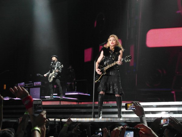 Madonna concert in Barcelona